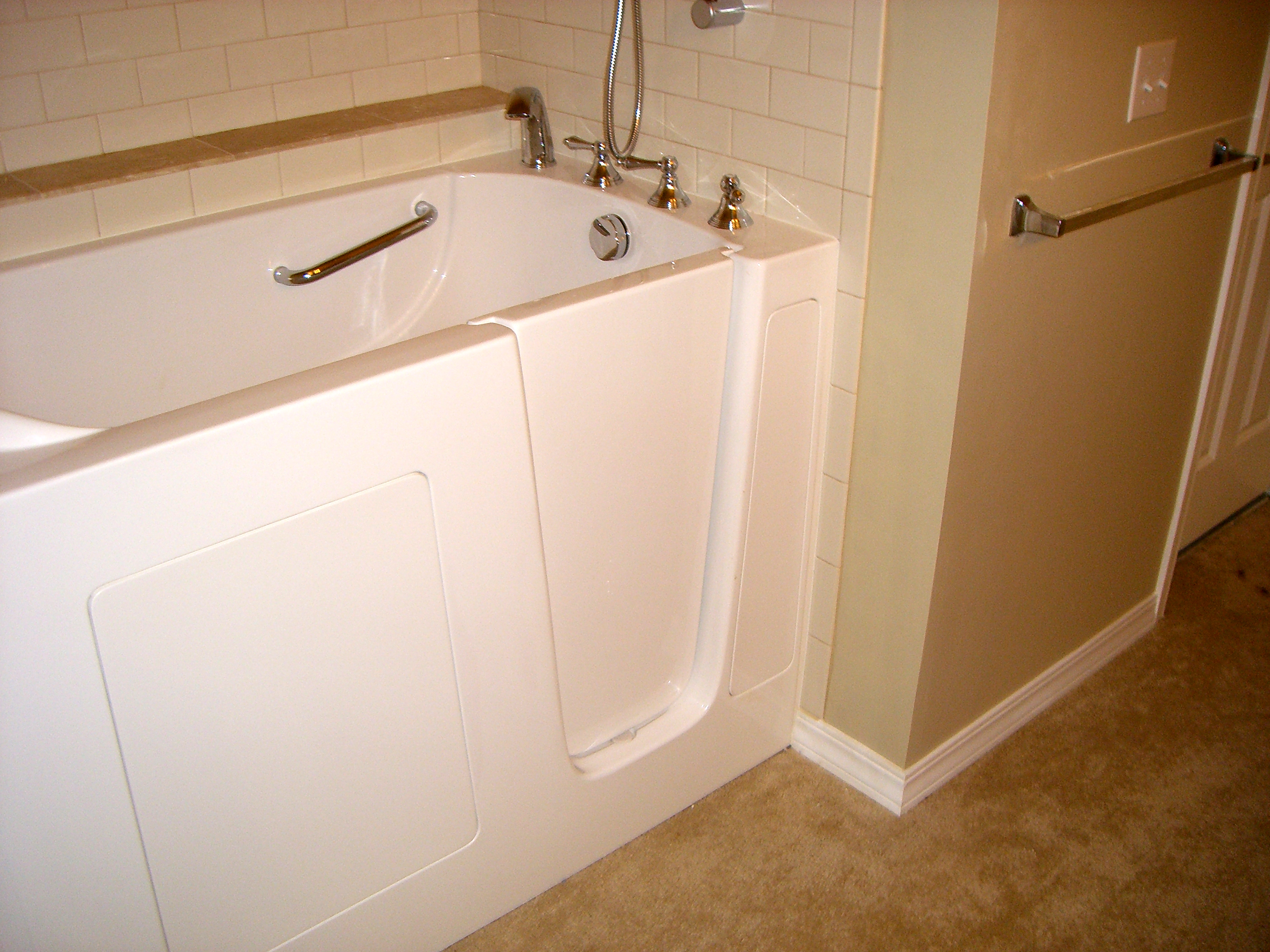 A walk-in bathtub (bathing, tub), with a door, as used by disabled / mobility impaired. Original flickr description; "New construction, the original tub and surround was removed along with both sides of the walls."